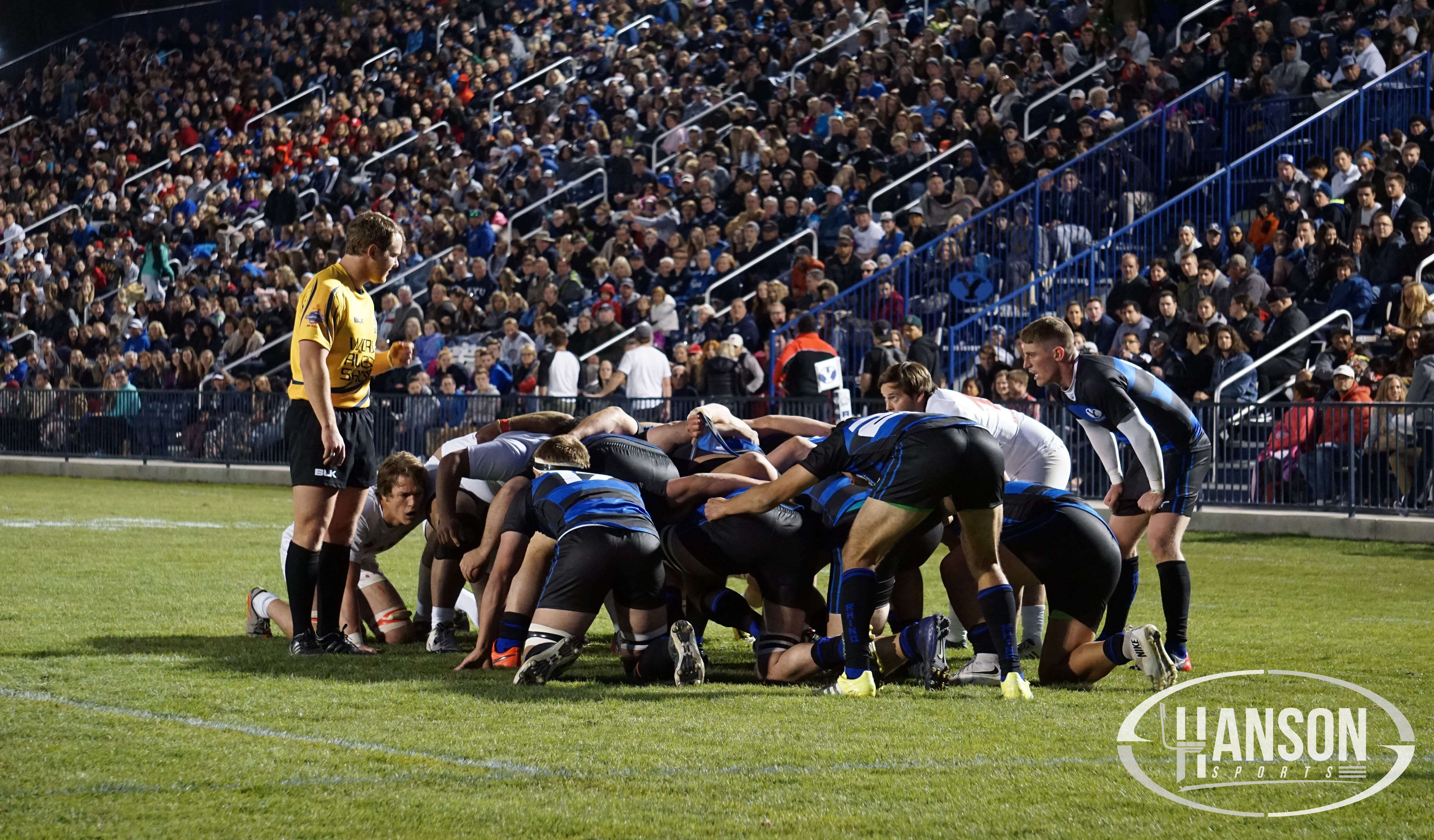 This picture was taken during the Wasatch Cup where BYU beat the University of Utah 49-12.